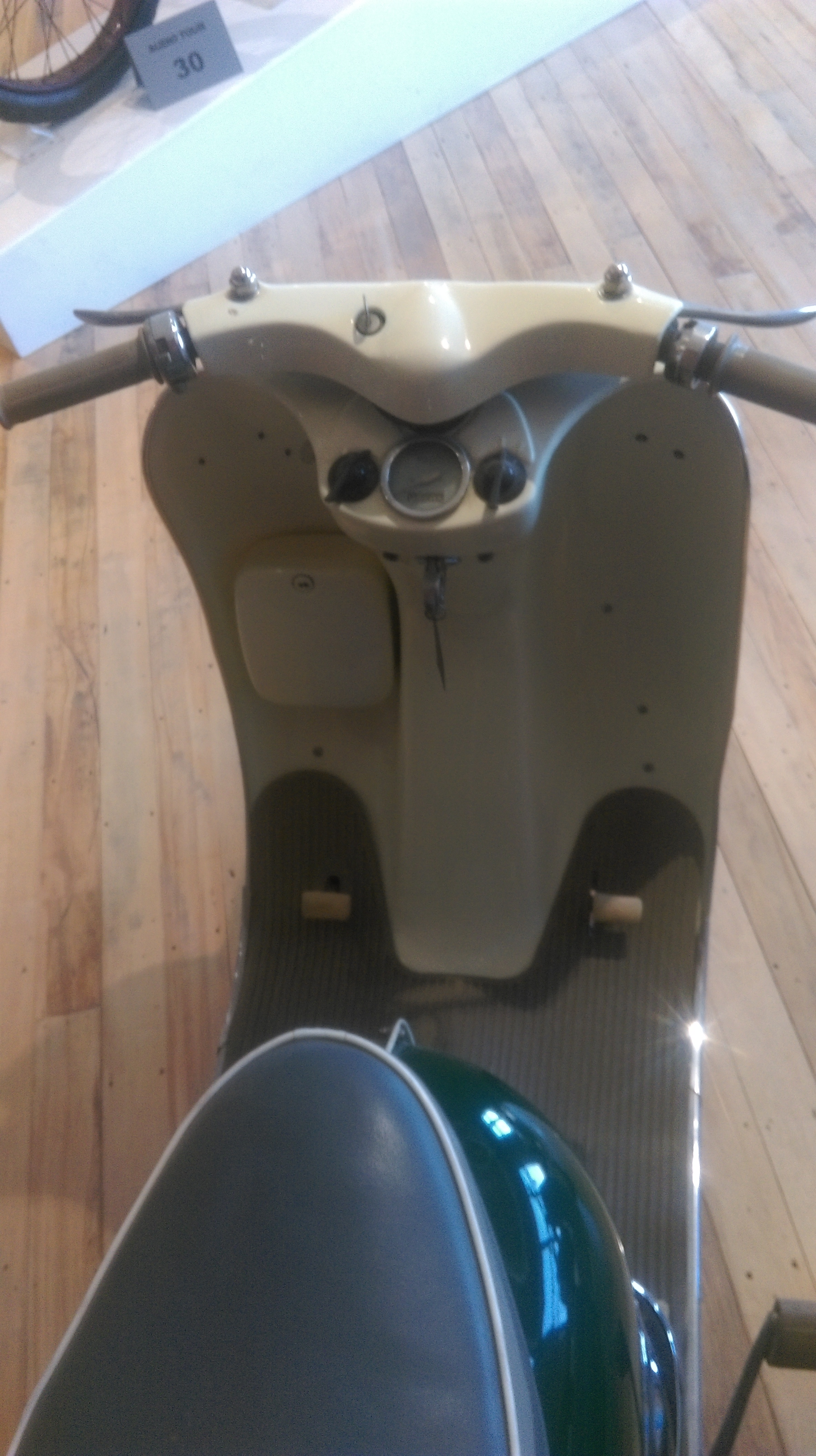 Triumph Tigress birds-eye view, Invercargill, New zealand